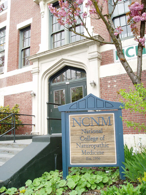 Photo Taken by Travis Thurston on 4/11/06